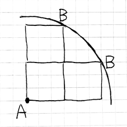 Kotan's Ant Problem (mathematical puzzle), hint